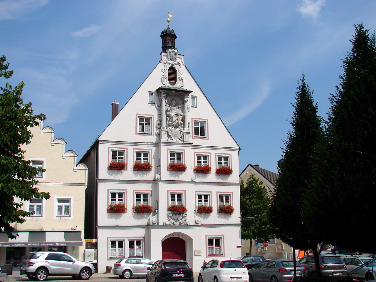 Hallertau Hops and Local Museum in Geisenfeld, Bavaria, Germany